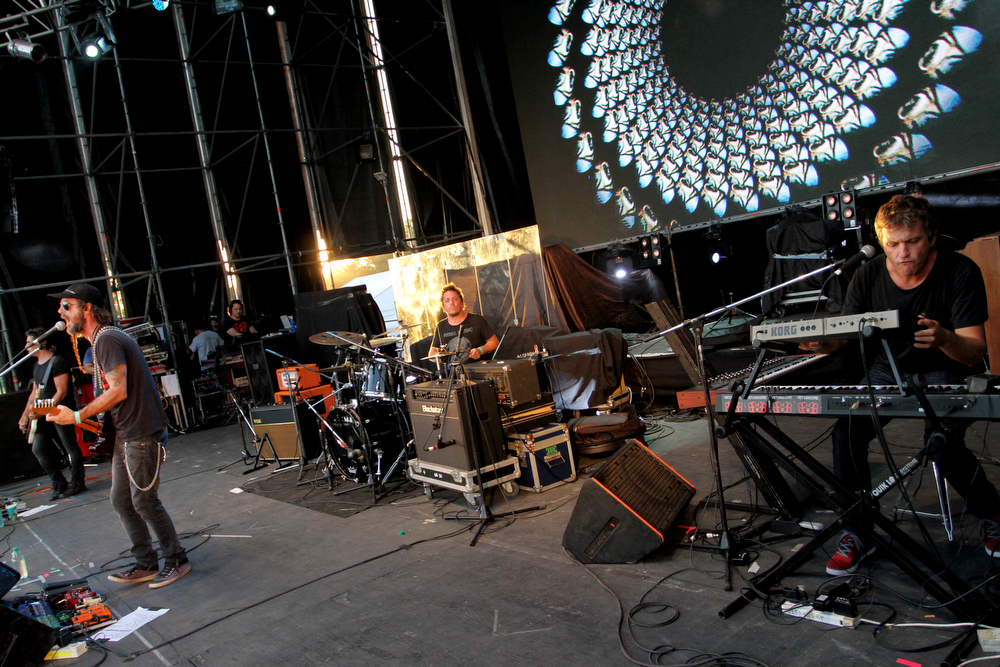 Ezeiza, 22 de febrero de 2015En el marco de la campaña "Verano de emociones", organizada por Presidencia de la Nación en conjunto con el Ministerio de Cultura de la Nación se presentaron en Ezeiza: "Así no más", "Nova", "La voz del barro", "Obreros de la negra", "Entrance", "La K-ra de Juan", "Elisdid", bandas del concurso Maravillosa Música lanzado por el Ministerio de Cultura de la Nación.Para el cierre, subieron al escenario "Vetamadre" y después La Mancha de Rolando.